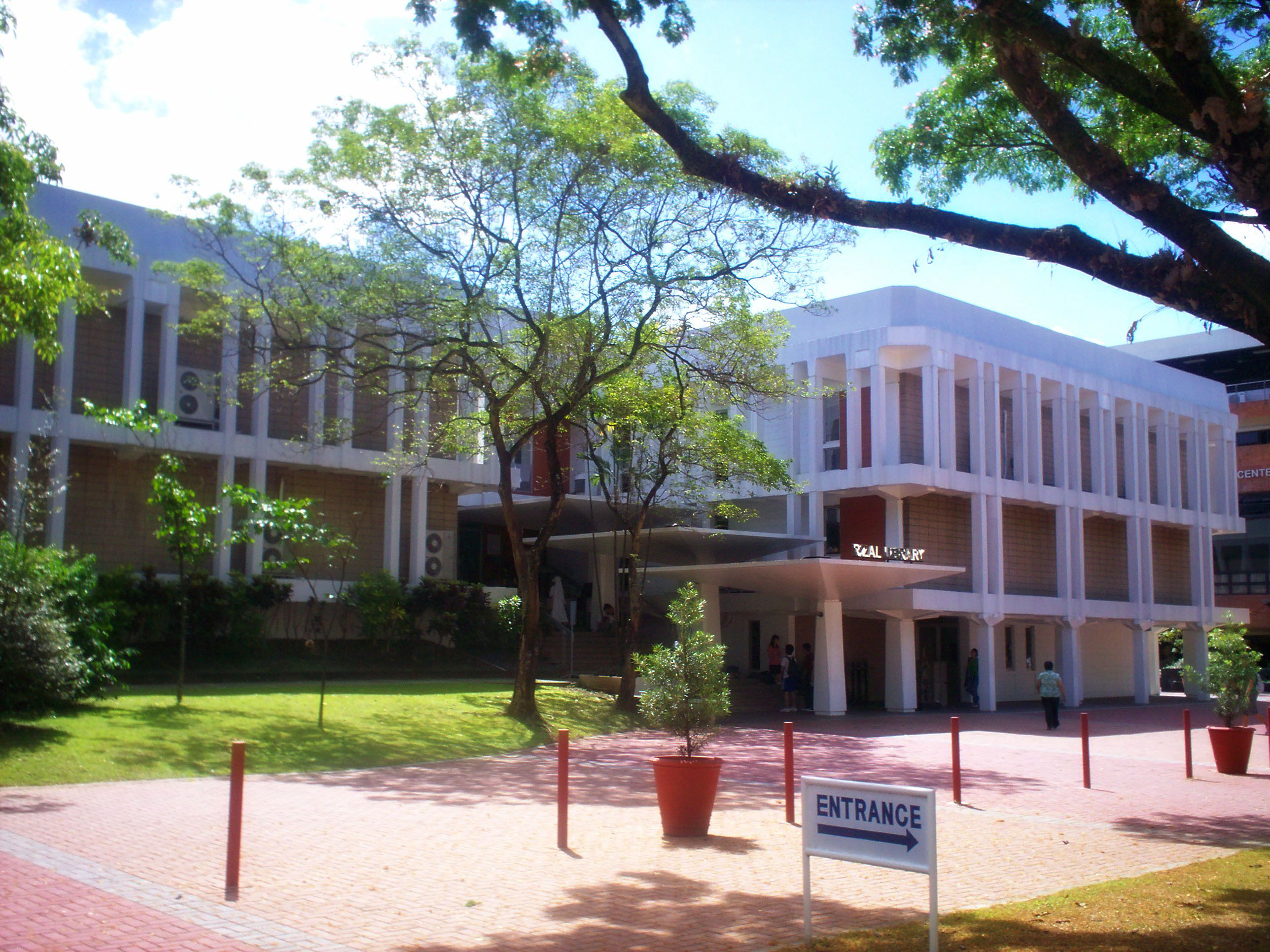 Rizal Library, Ateneo de Manila University